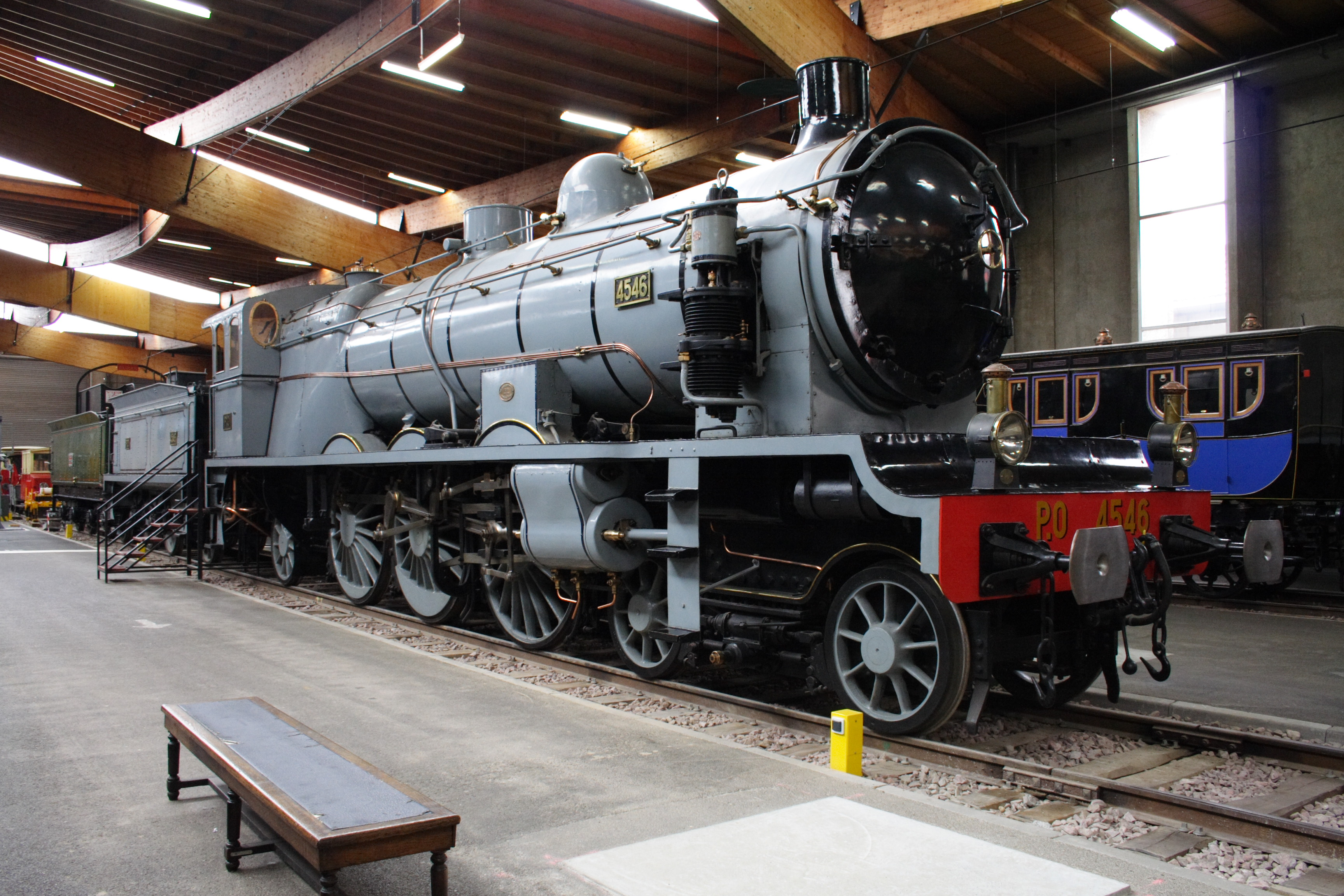 The steam locomotive Pacific "231 4546" of the Paris-Orleans railway company at the Cité du Train (Mulhouse, France)